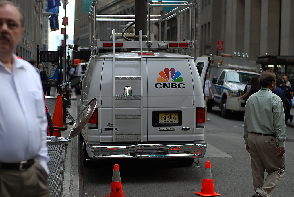 CNBC Microwave Live TruckCNBC TV